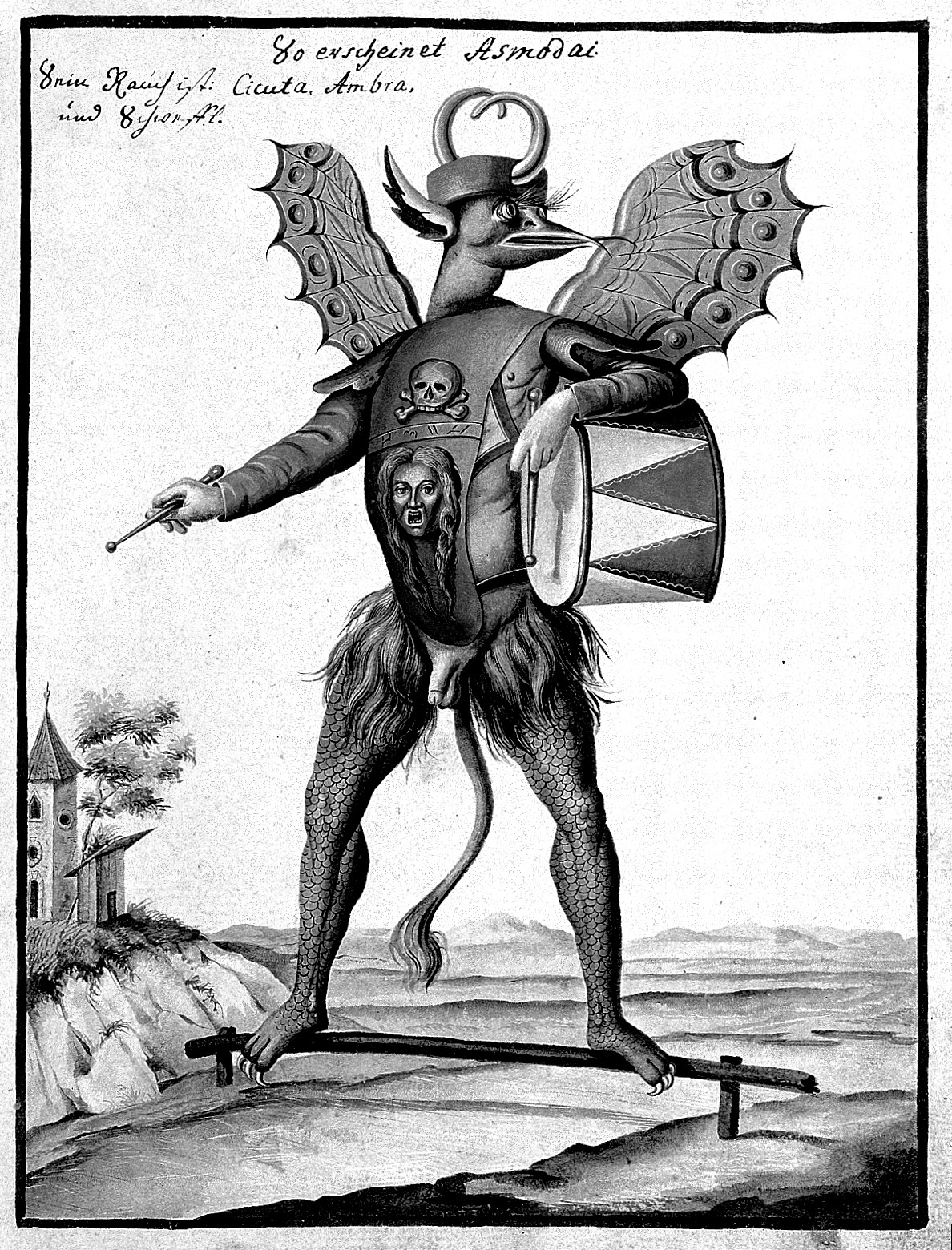 Folio 18. Archives & Manuscripts